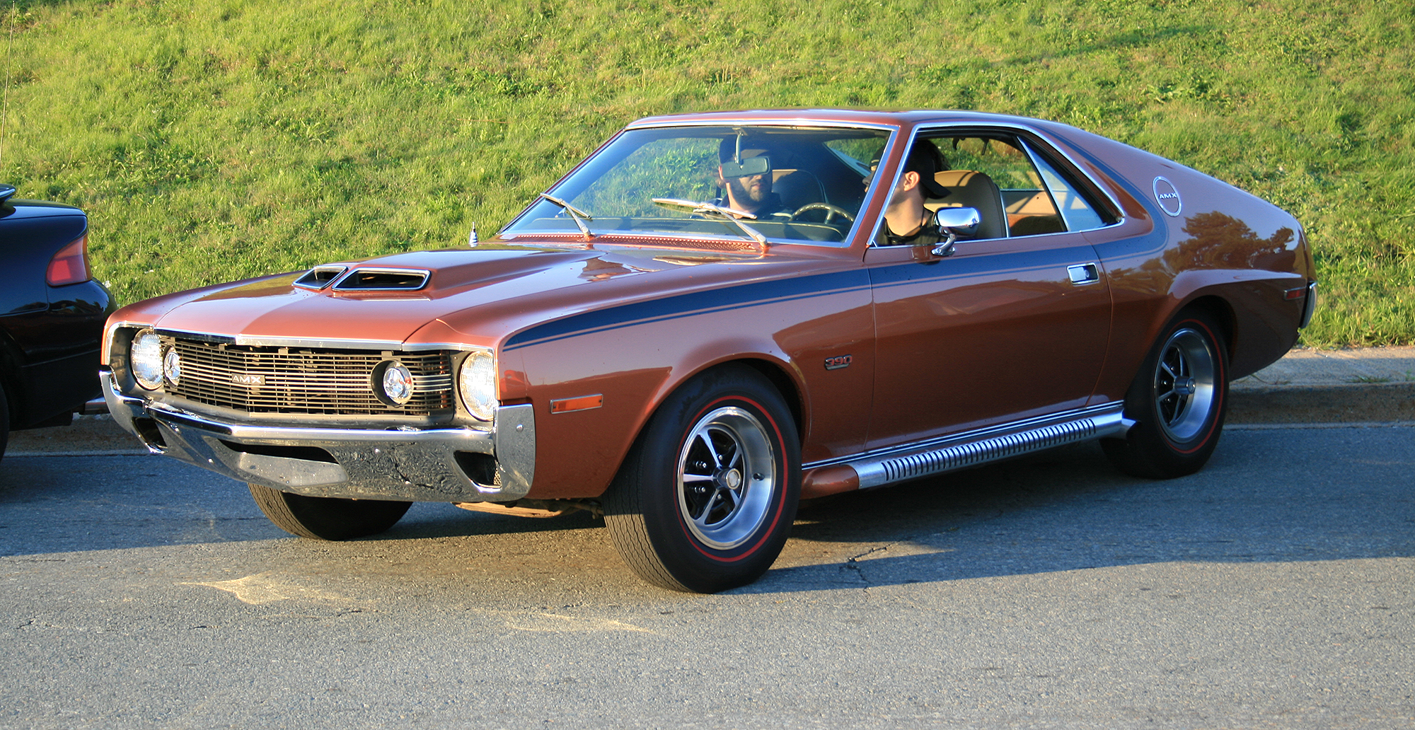 1970 AMC AMX